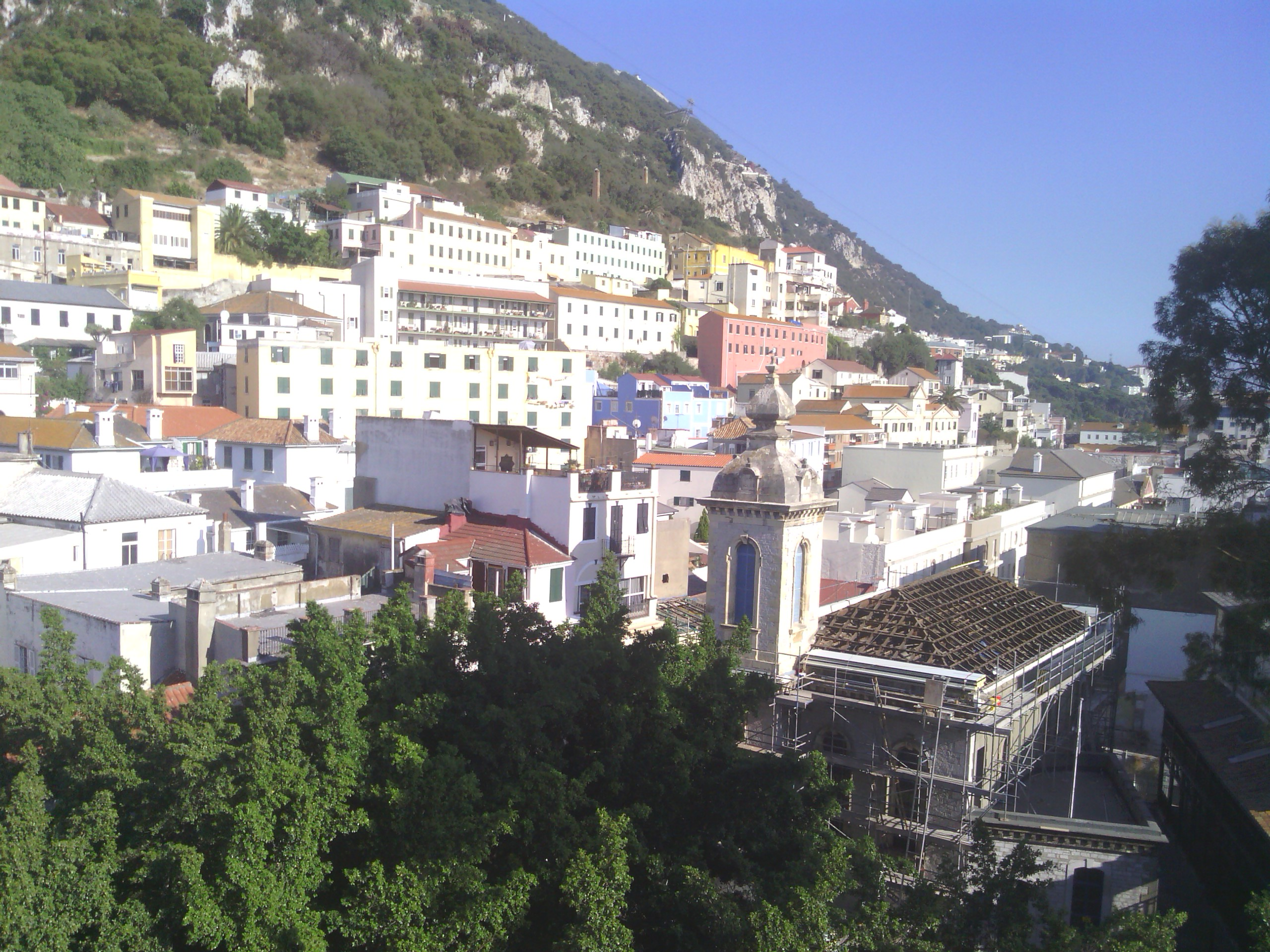 From back of Callaghan Elliot Hotel of Gibraltar rock